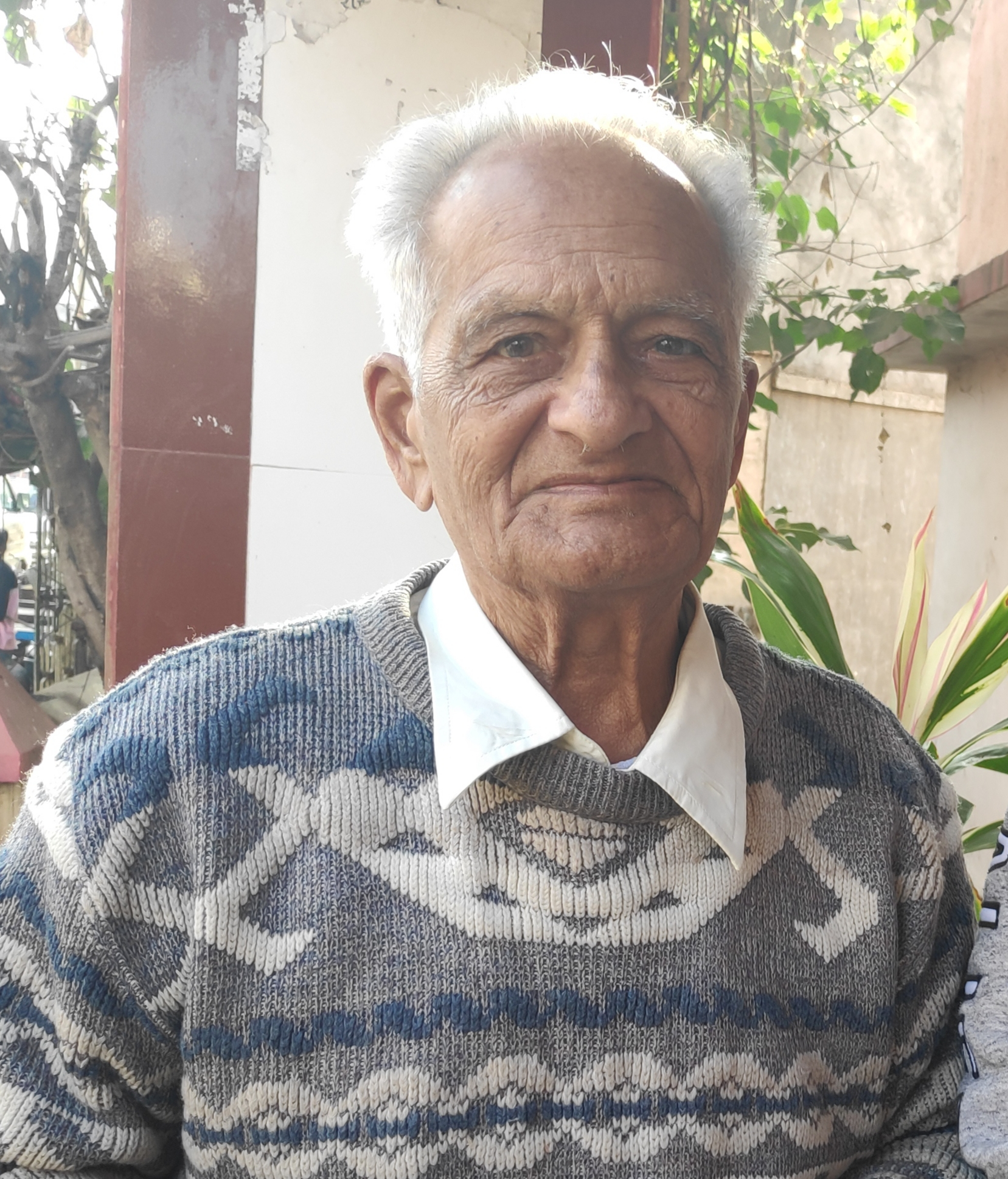 Gujarati historian and writer Makrand Mehta at Maharaja Lalsinhji Library, Lunawada, Gujarat, India